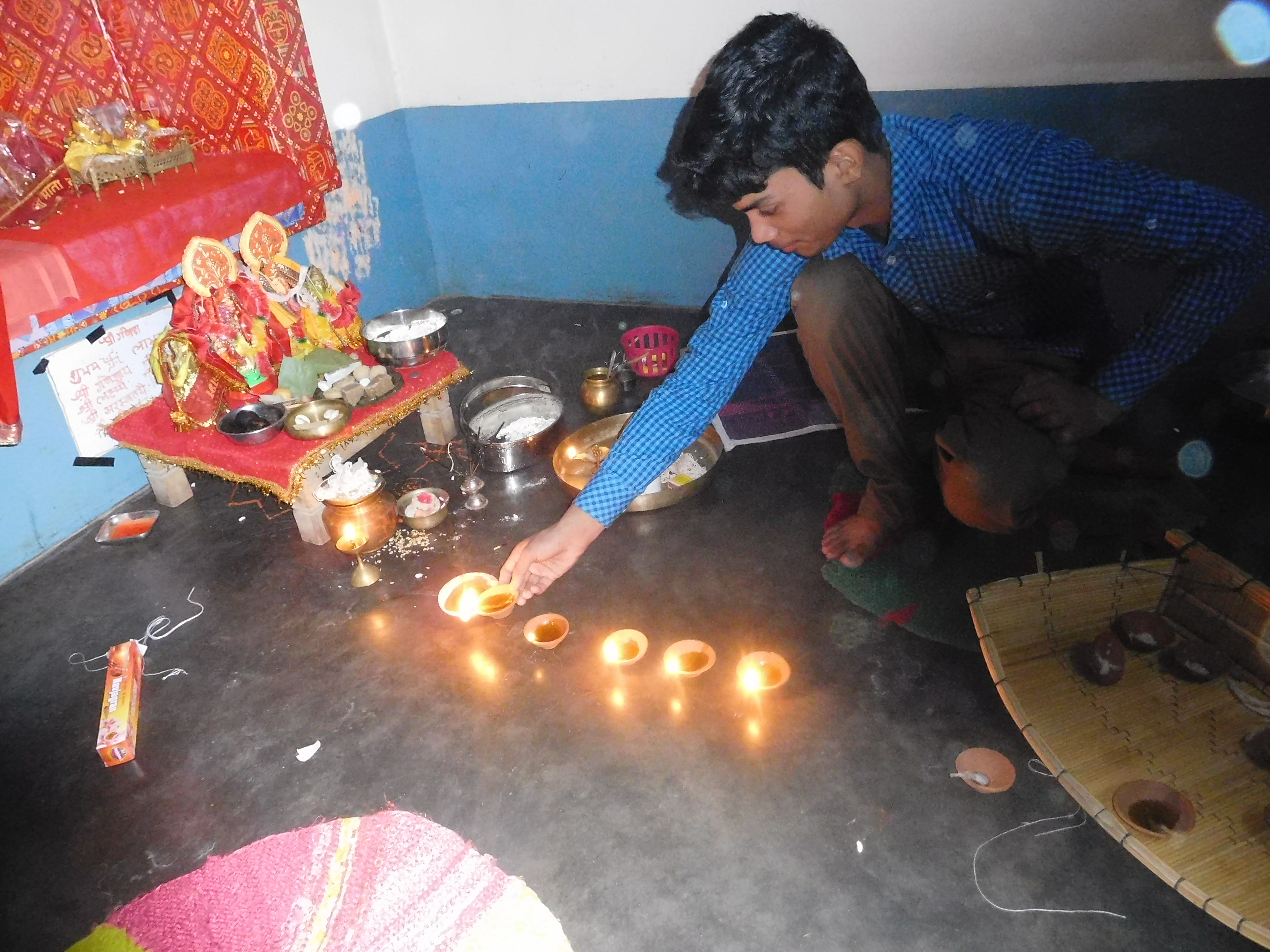 Diwali celeberation in traditional way in Uttar Pradesh